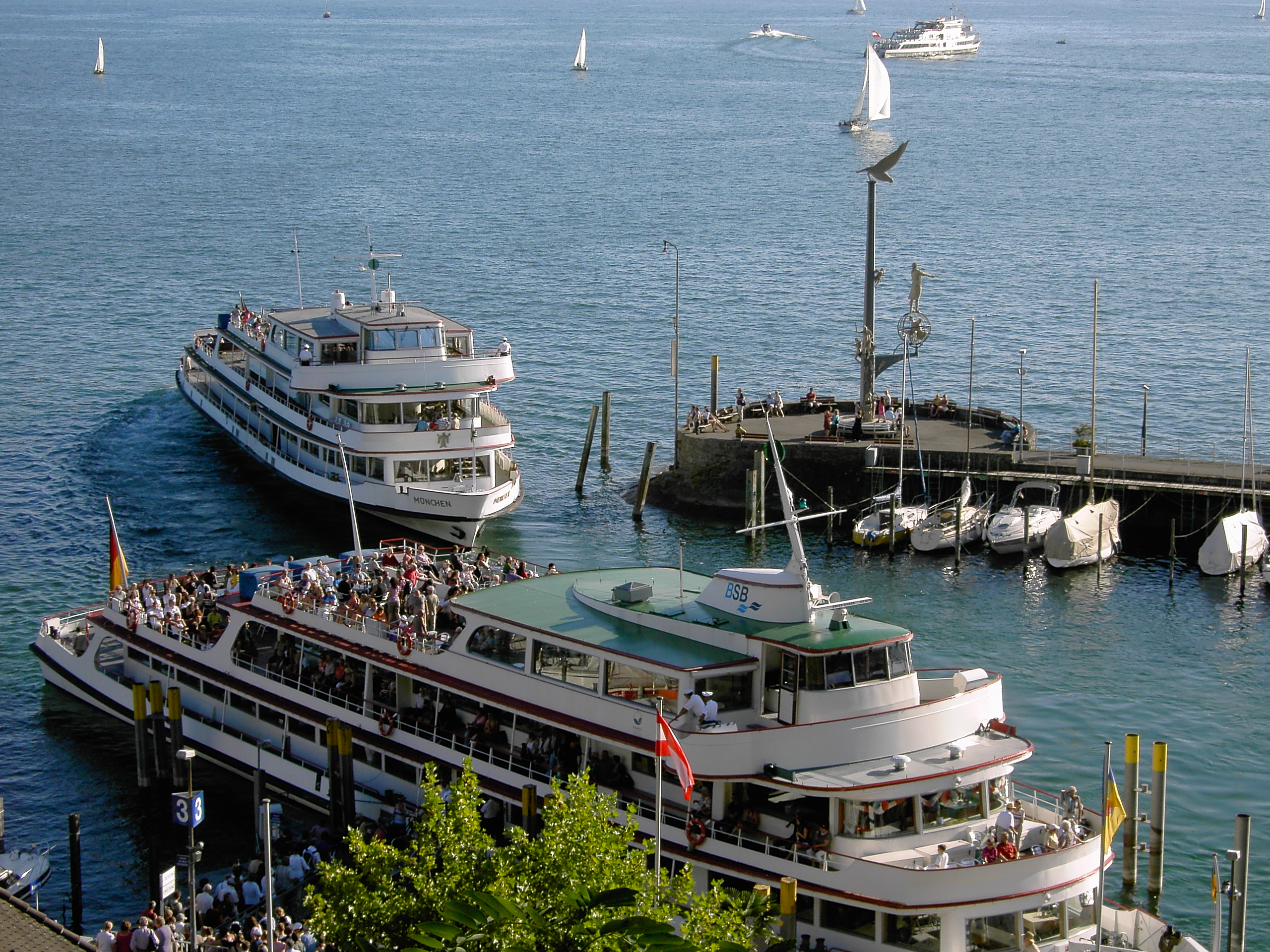 The motor ships Munich and Stuttgart at Meersburg, Germany